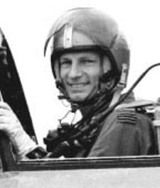 In the cockpit of a Hawker Hunter FGA 9 aircraft of the Rhodesian Air Force in 1970